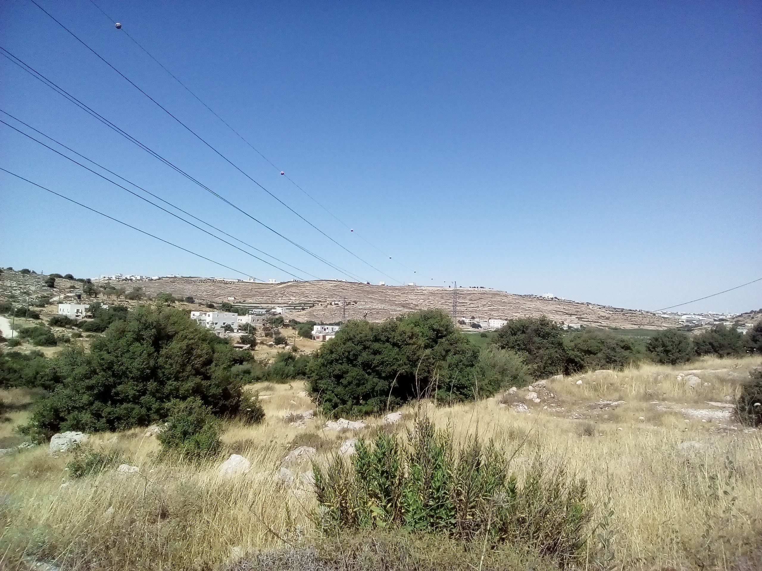 The view on Hebron province outside Kiryat Arba settlement